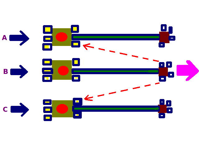 Lateral inhibition can be used in vision. If a signal coming from the left (three blue arrows) activates all three neurons (A, B, and C) but affects B with the strongest signal or first, then B fires rightwards down the axon but also sends signals to neurons A and C (broken red arrow) not to fire. The result is a sharper signal (pink arrow).